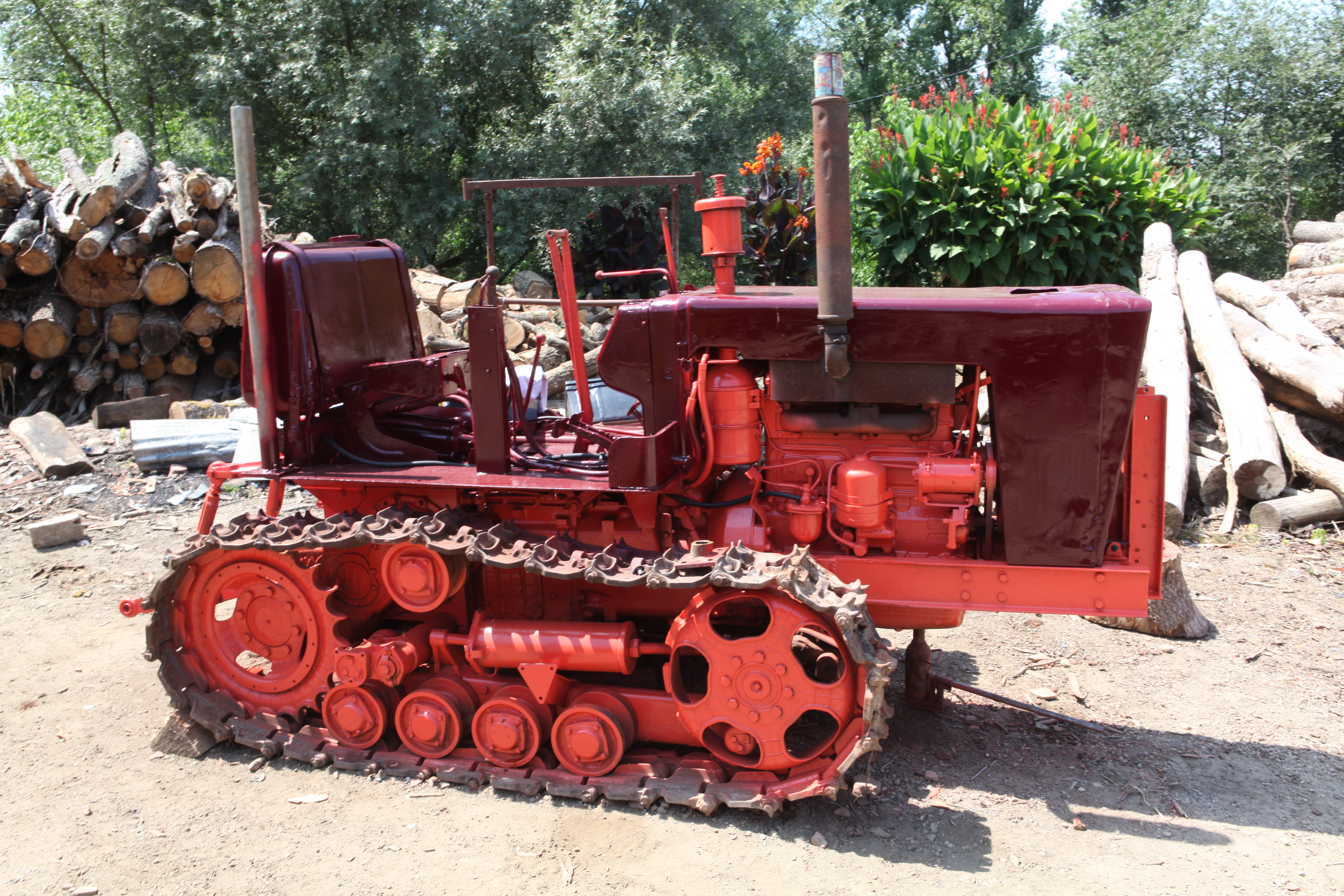 Unknown type crawler tractor